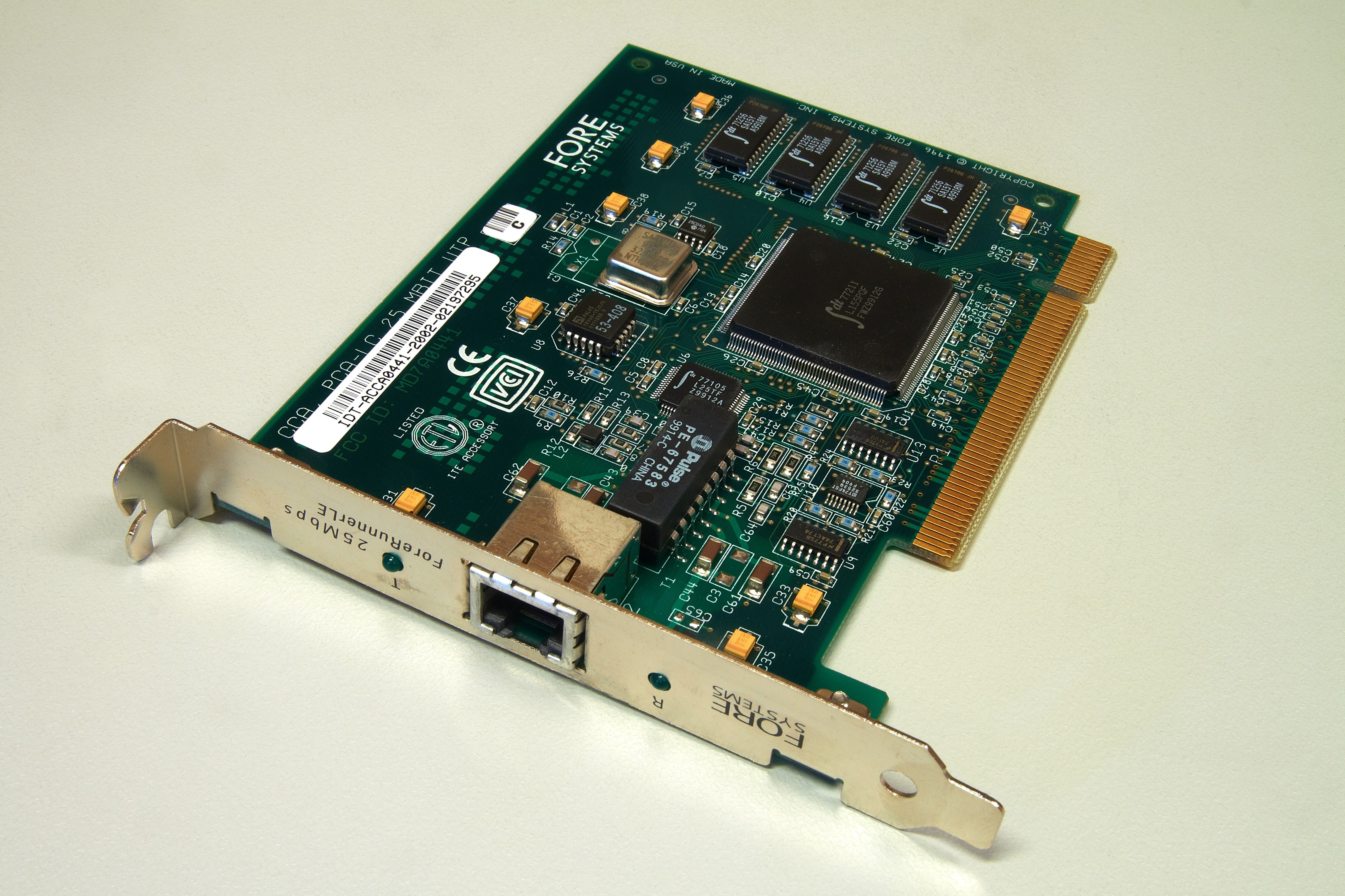 FORE Systems ForeRunnerLE 25 Mbps UTP Asynchronous Transfer Mode (ATM) PCI network interface card.